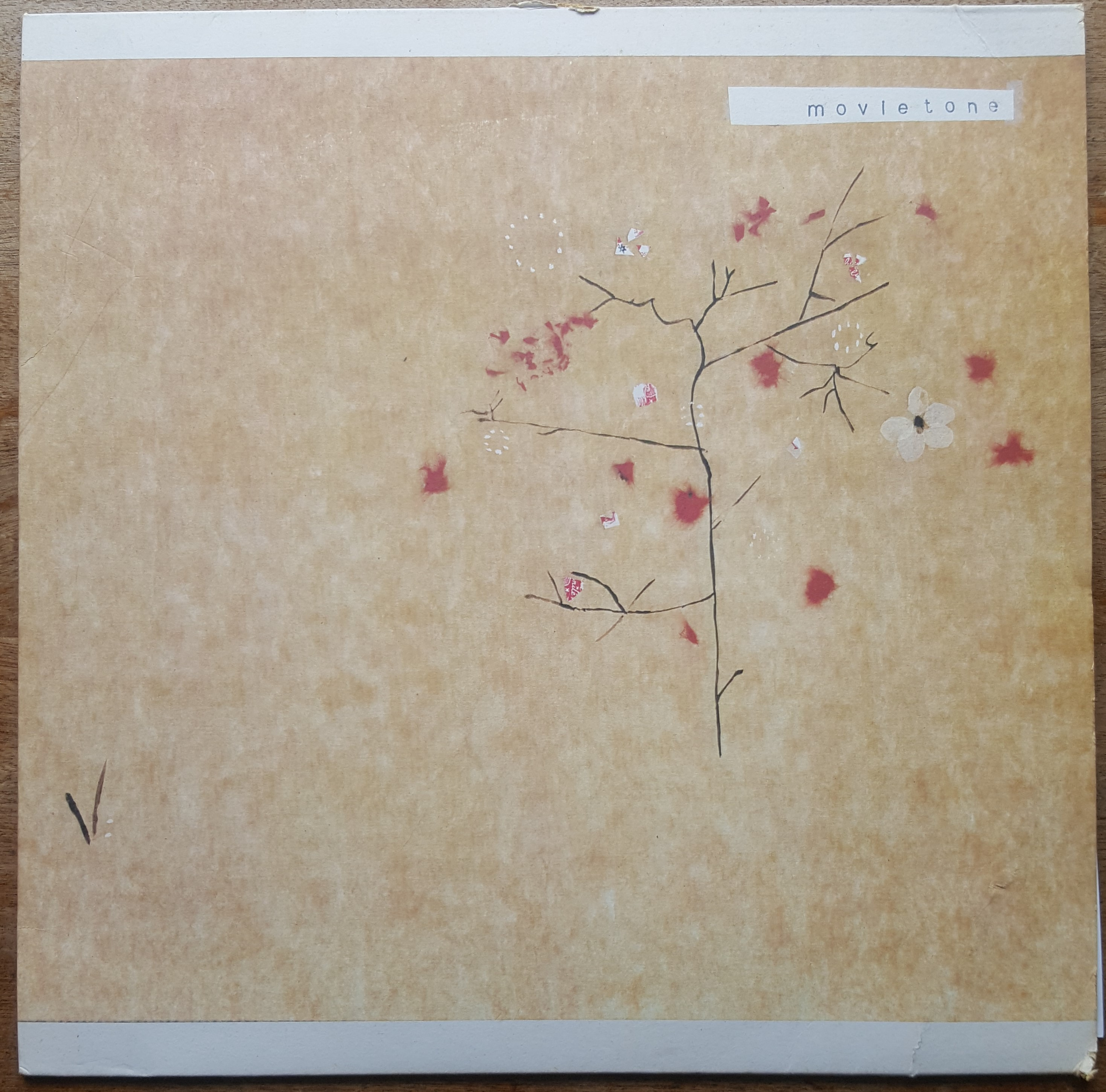 Movietone The Blossom Filled Streets, Domino records, Drag City 2000